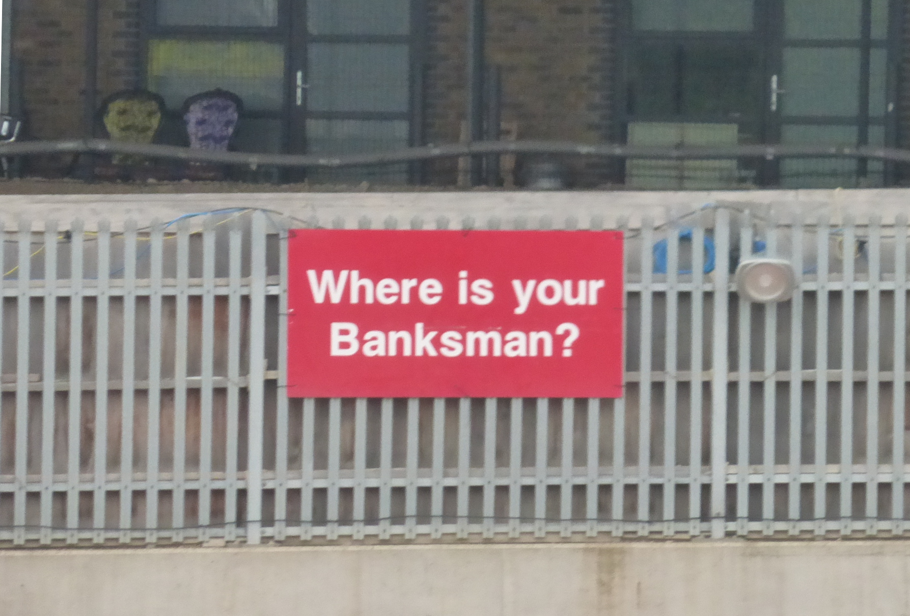 A safety reminder displayed at an industrial site visible as trains approach London Paddington station.